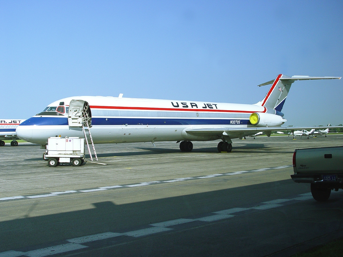 New to the database